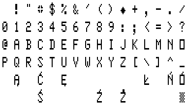 Version of Meritum charset with Polish specific letters.